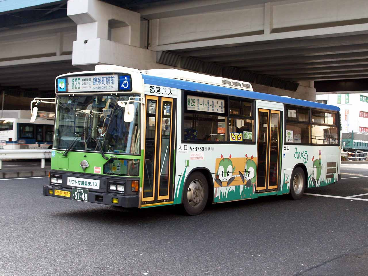 Toei Bus mascot "Minkuru" bus. July 2008 retired. Model: Hino Blue Rihbbon KC-HU2MLCS (Wheelchair lift equipped) License plate: TKA22 KA5148 Place: Kasai Station, Edogawa ward, Tokyo Japan